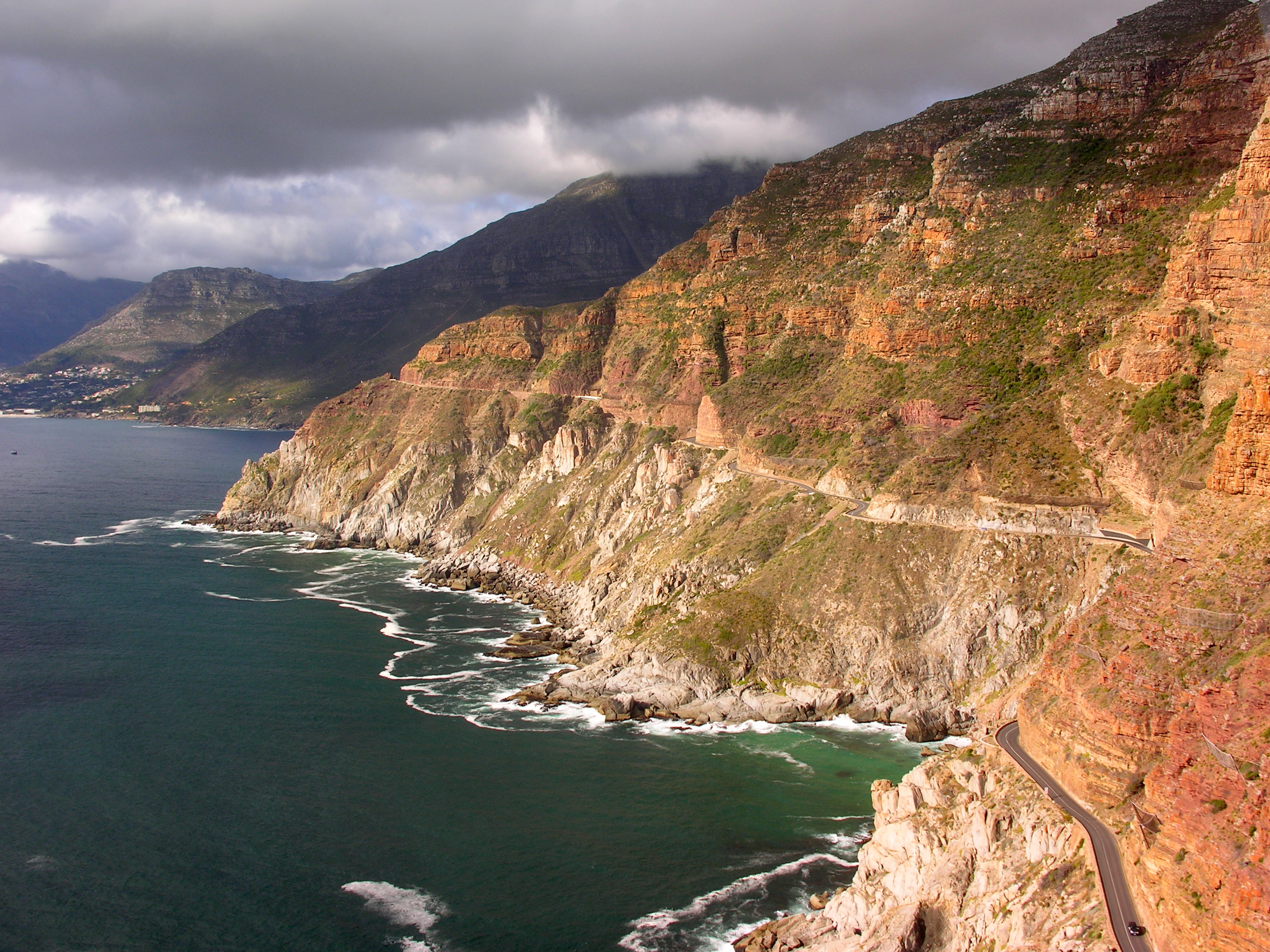 South Africa, Aerial view of Chapman's Peak Drive. For exact location see geocode.